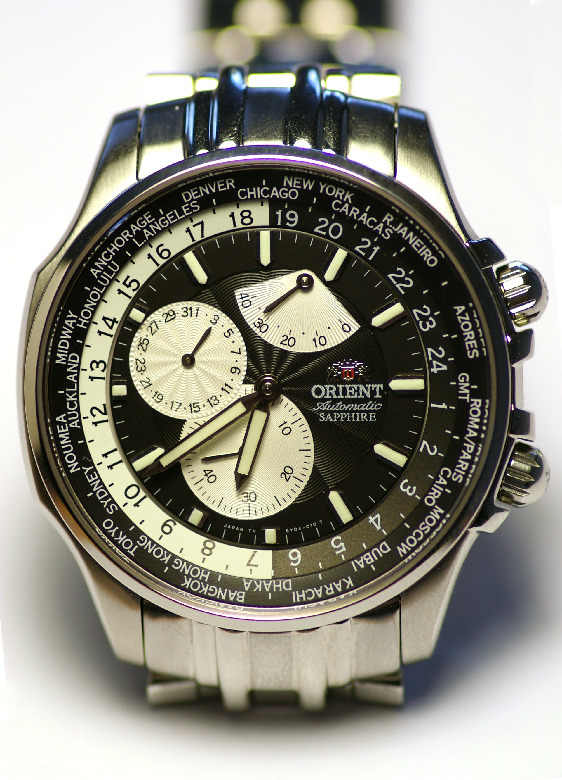 An Orient CEY04002B, "World Time" mechanical watch. Sapphire crystal, power reserve, and world time indicator.